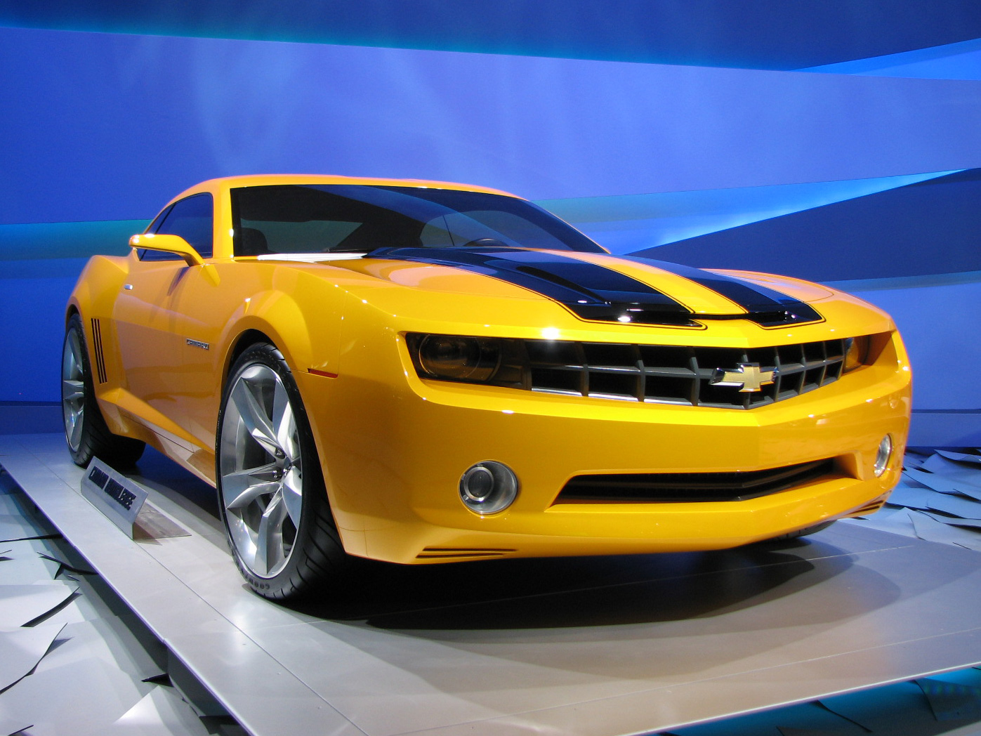 Taken at the 2008 Detroit Auto Show